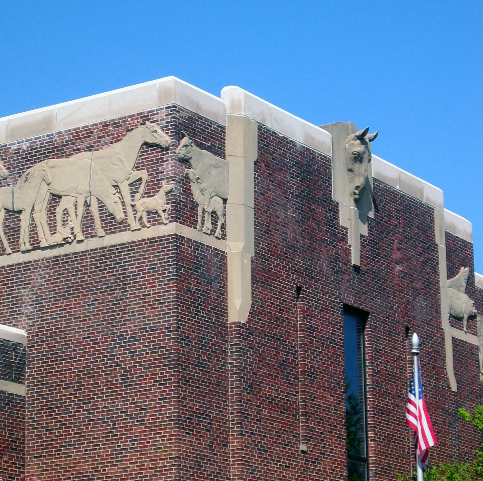 Detail of the Pennsylvania Farm Show Building, Harrisburg, Pennsylvania, USA, showing animal-themed Reliefs decoration